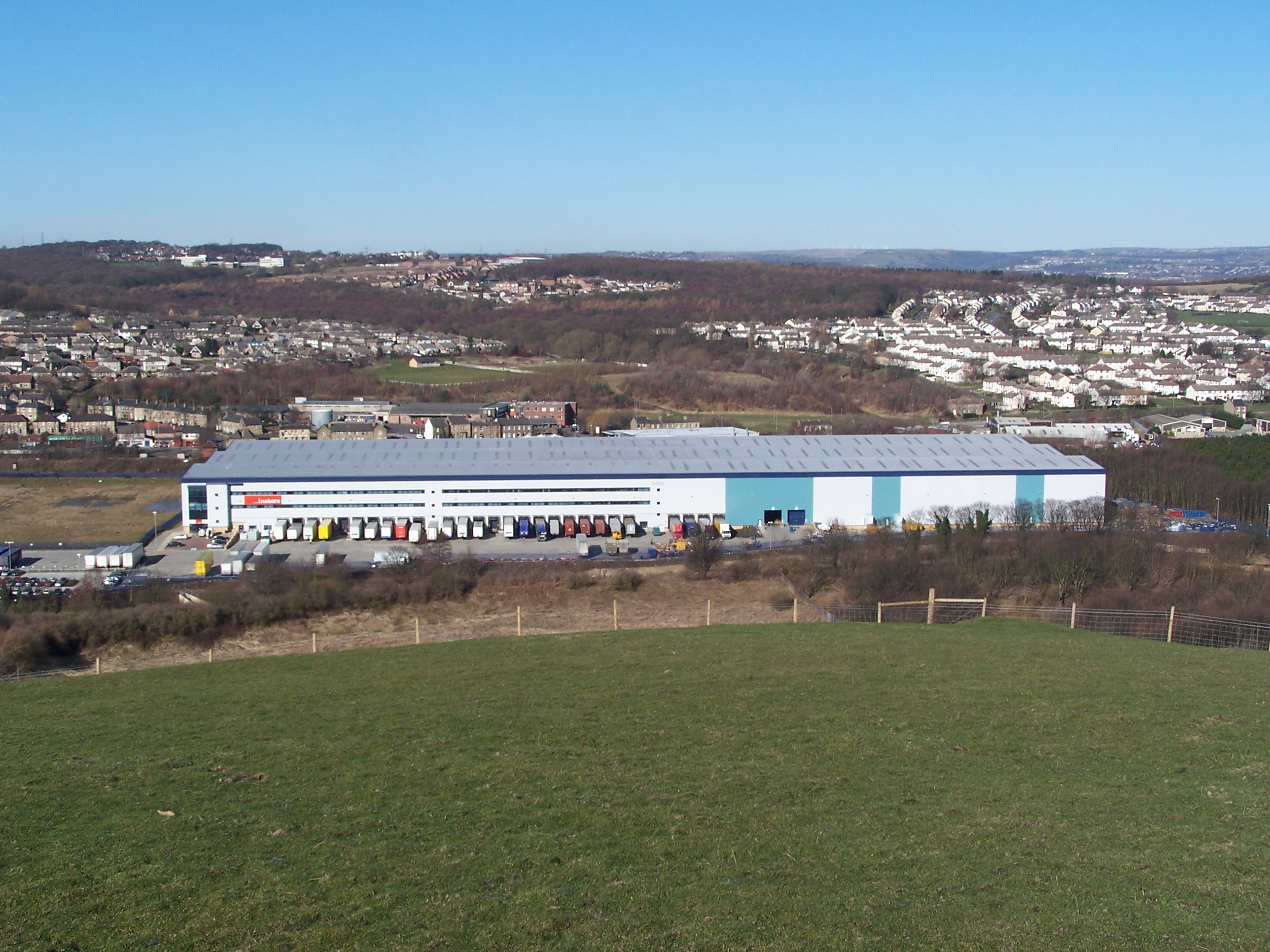 Photograph taken by Adam Brookes (Adambro) of the headquarters and distribution centre of en:...instore in Huddersfield